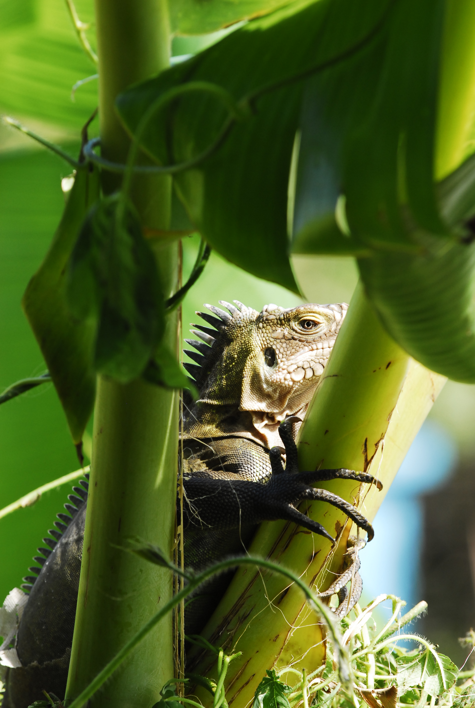 The iguanides (Iguanidae) or iguanas are a family of semi-arboreal reptiles, either terrestrial or marine, which feed upon plants and insects. The term derives from the Iguanides Iguana vernacular name, which itself comes from the Arawak, the Taino, or the goaxiro. It entered the English language through French from Italian.